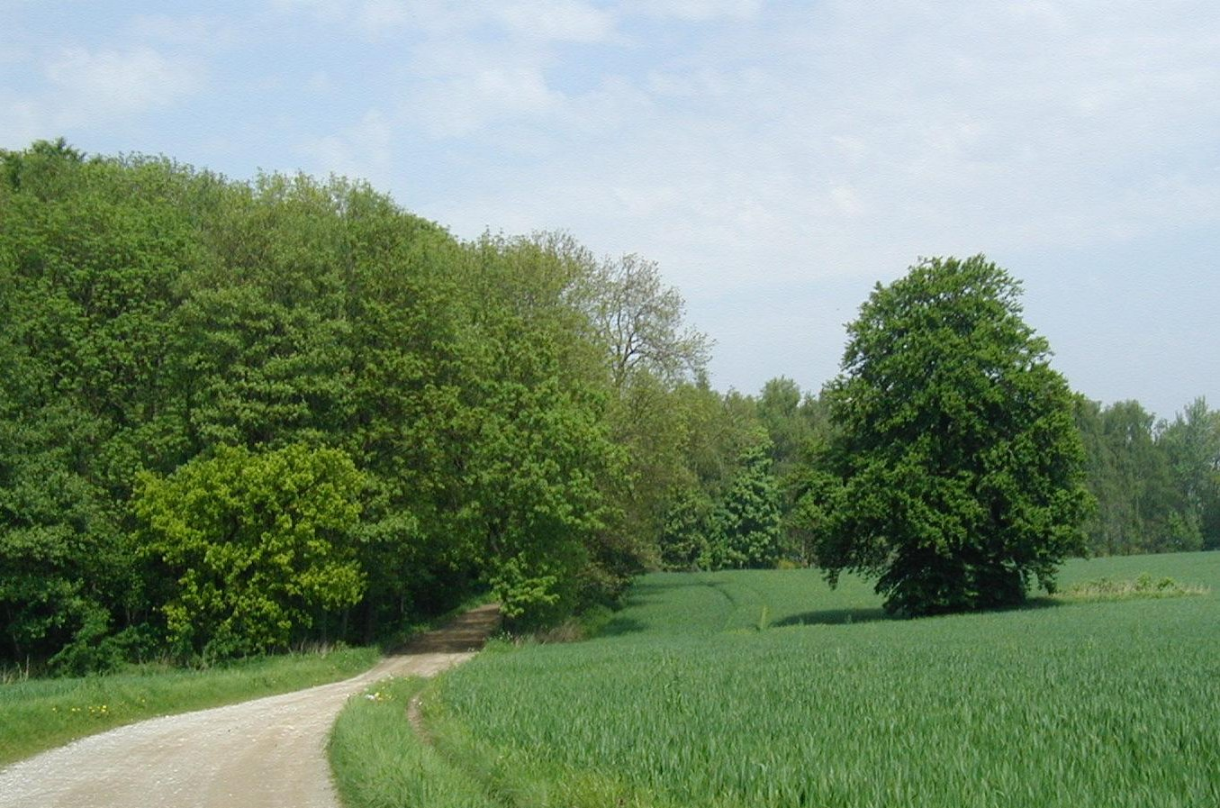 Farmland with a barley-field.